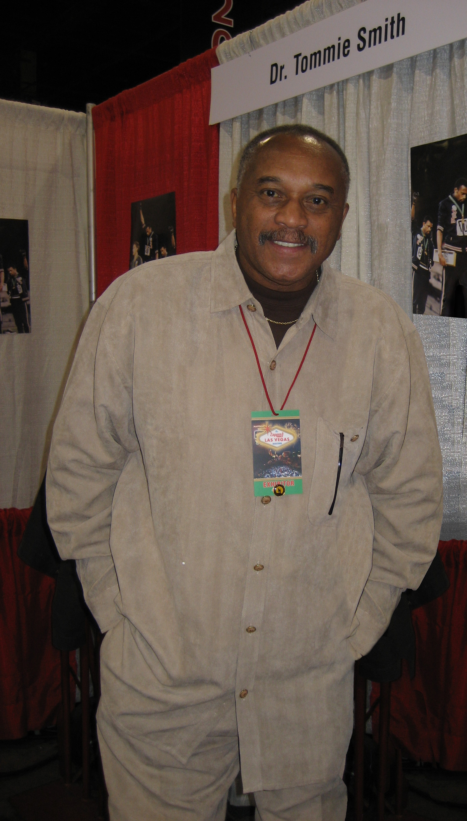 The guy from the 1968 Olympics. He was at the Marathon Expo.